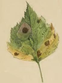 Stainton’s Natural History of the Tineina (1855–1873): Ectoedemia occultella mined birch leaf